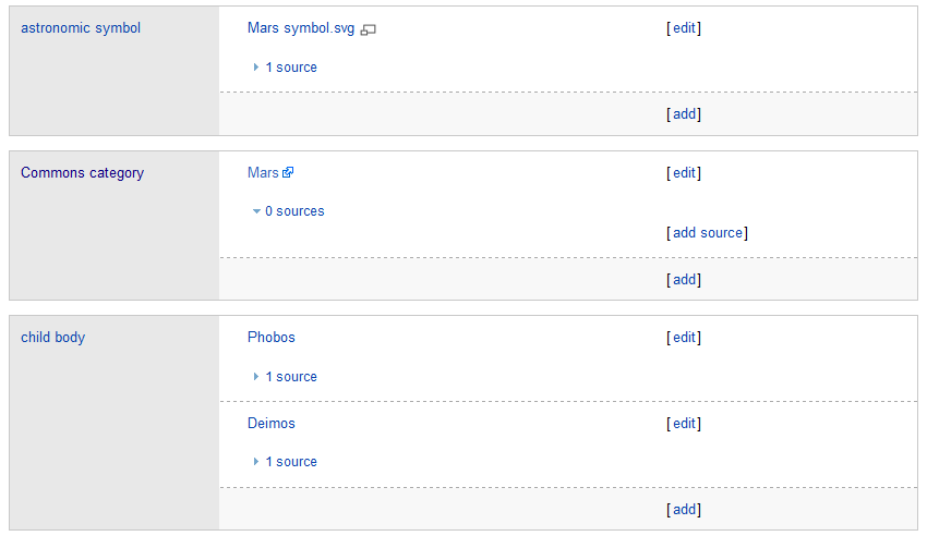 A collection of statements from Wikidata's item on the planet Mars.